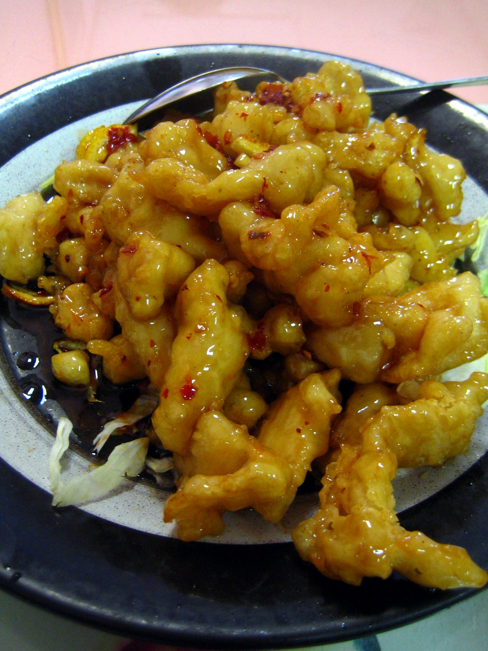 Orange chicken as served by the Yum Yum House at 581 Valencia Street in the Mission District of San Francisco, California, United States